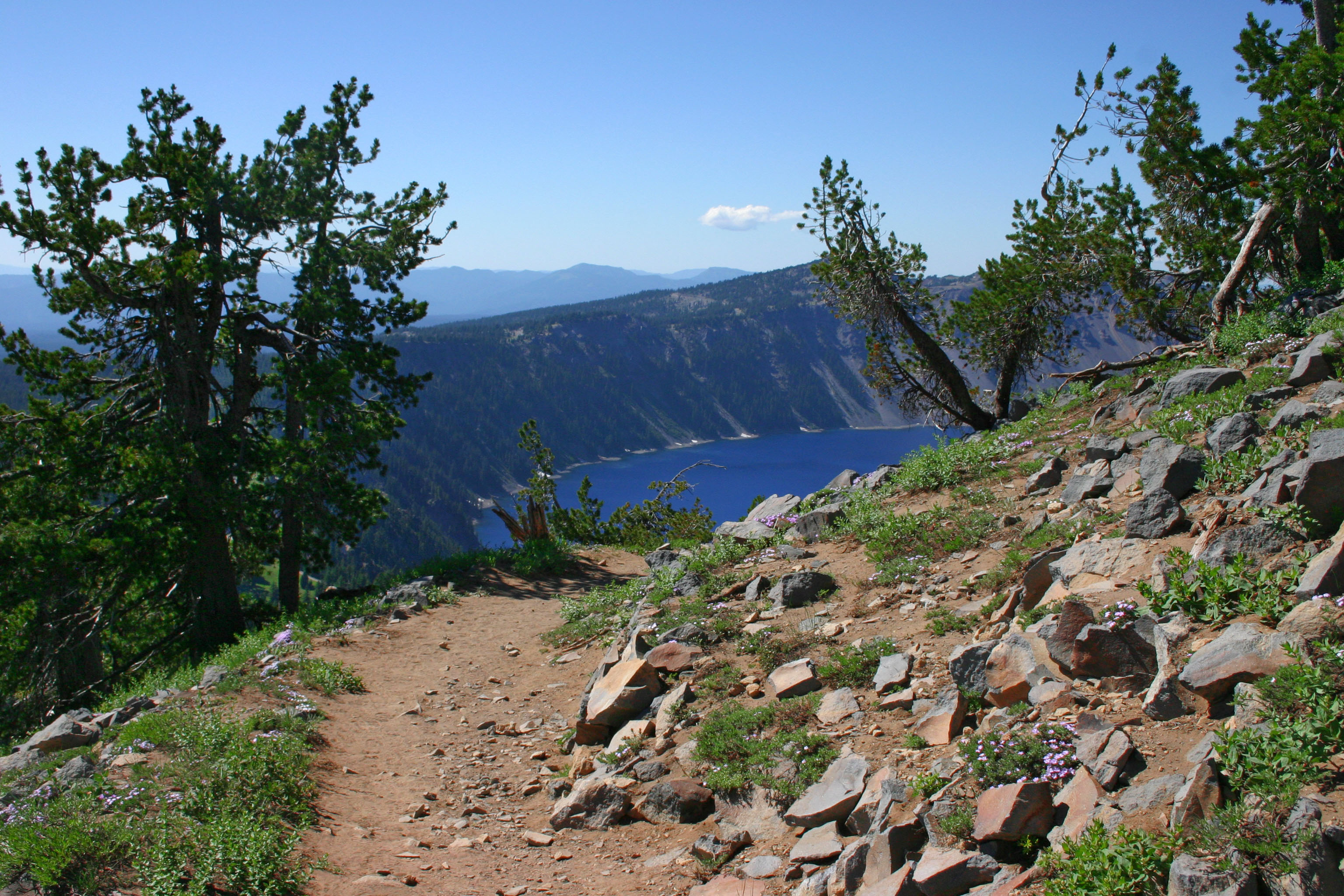 Garfield Peak Trail - view east, Crater Lake.